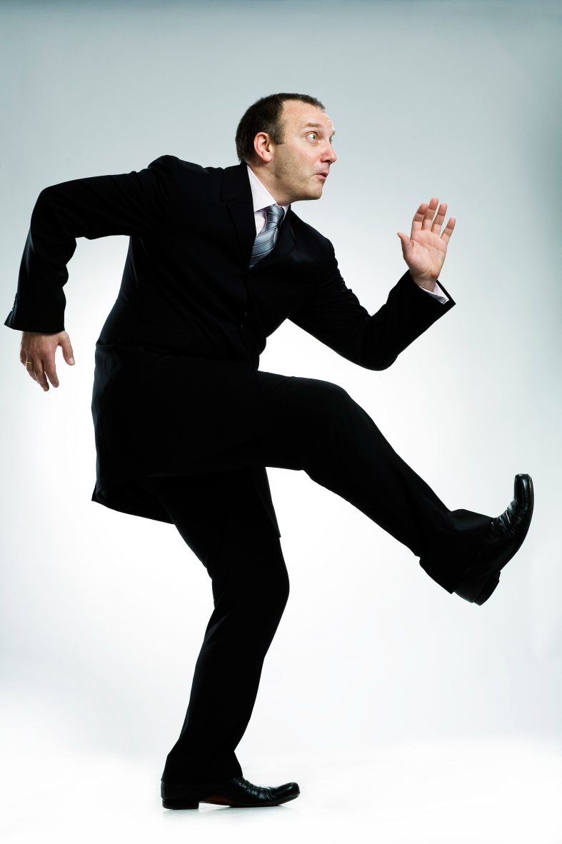 Marko Stojanović — Serbian actor, mime artist, cultural and humanitarian activist Српски (ћирилица): Марко Стојановић — српски глумац, пантомимичар, културни и хуманитарни радник Srpski (latinica): Marko Stojanović — srpski glumac, pantomimičar, kulturni i humanitarni radnik